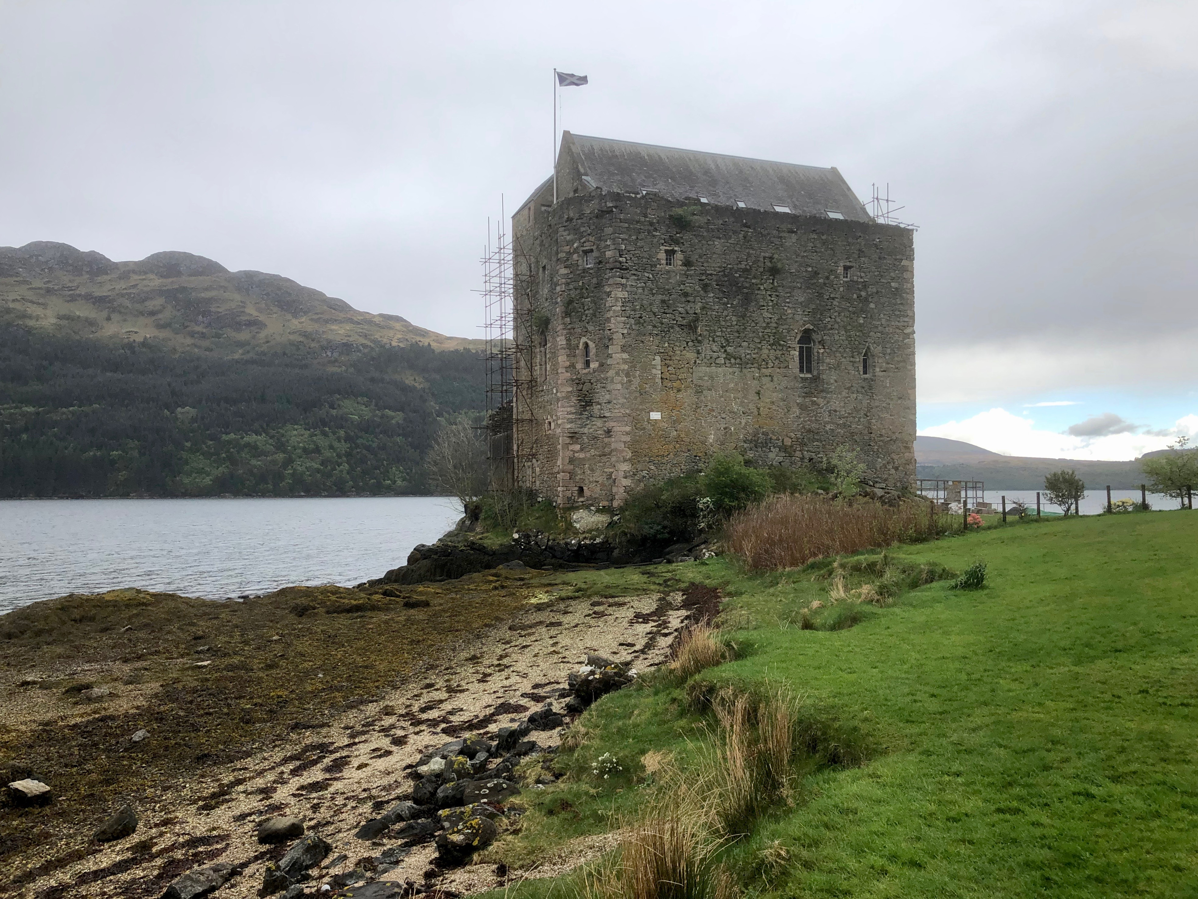 Carrick Castle tower house, looking east with Loch Goil in the background